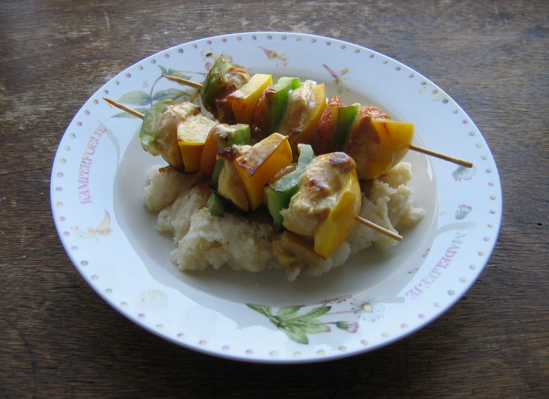 Chicken sosaties with green and yellow peppers and dried apricot, served with pap.